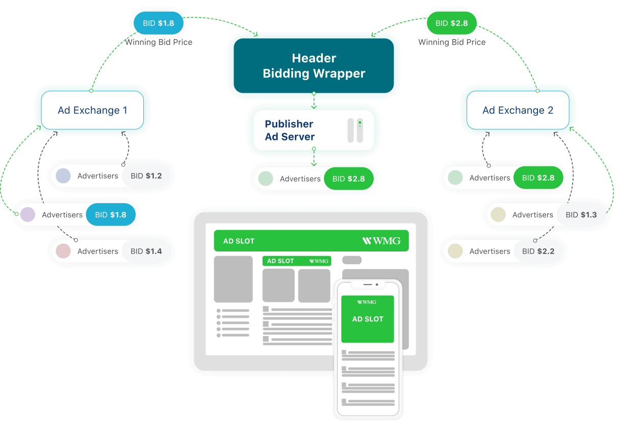 How header bidding works (scheme)